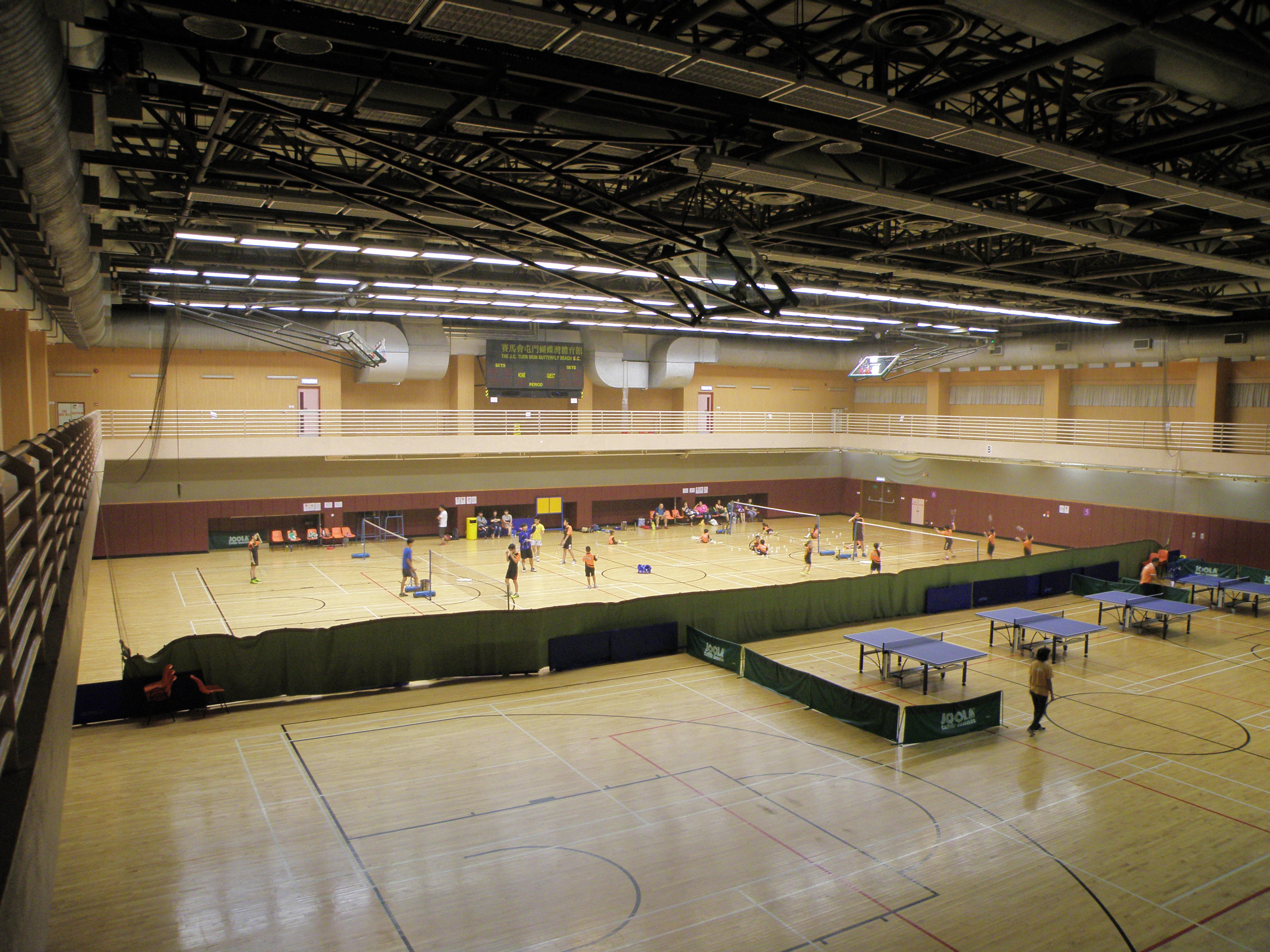 The Jockey Club Tuen Mun Butterfly Beach Sports Centre in Tuen Mun, Hong Kong.